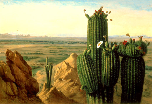 View in Arizona: looking west-northwest from Maricopa Mountains over Gila River Valley with Gila Bend Mountains on left.)